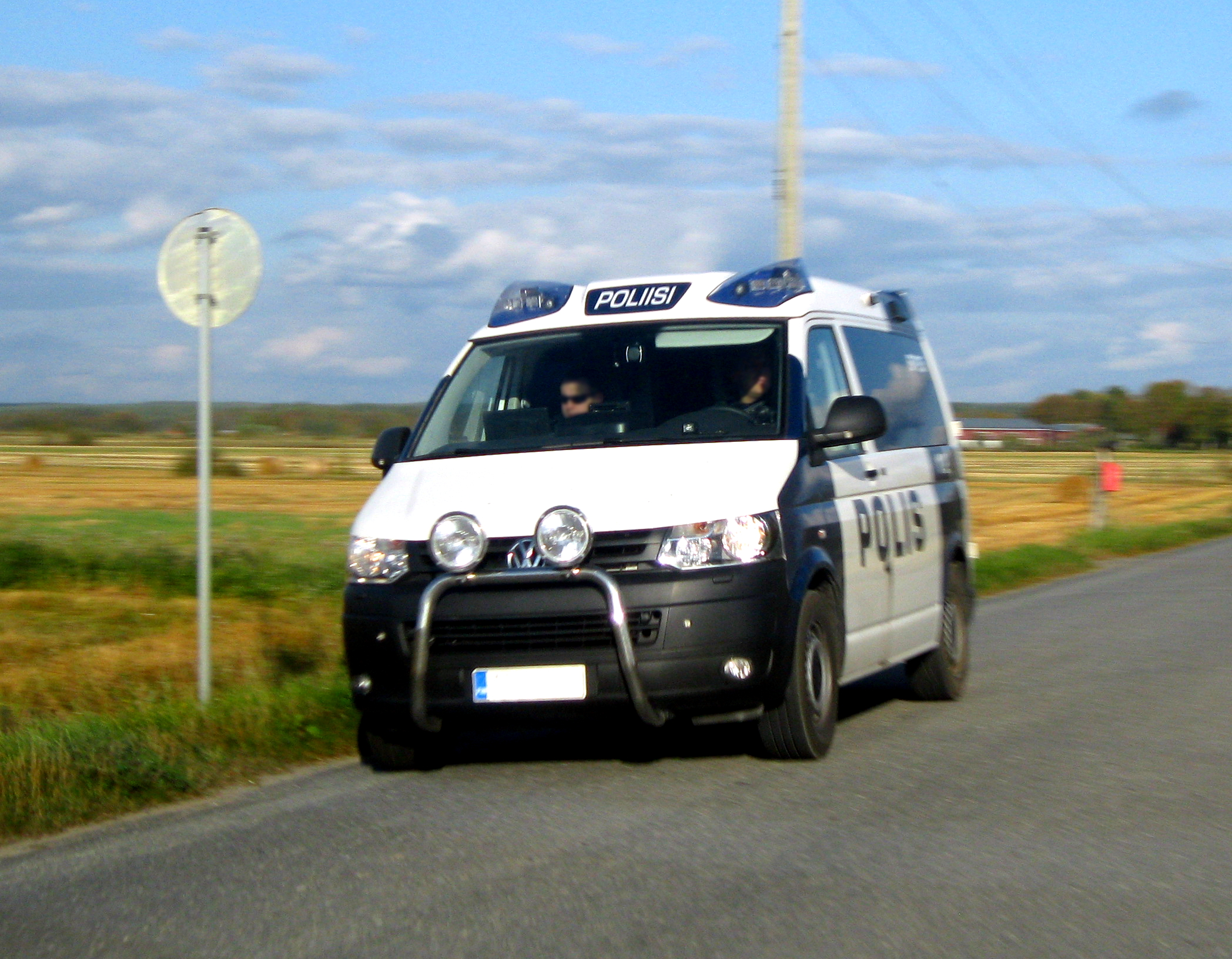 Finnish police car